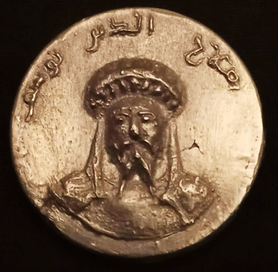 Posthumous decorative coin of Saladin, in lead. Inscription reads " Salah-Aldin-Yousuf"